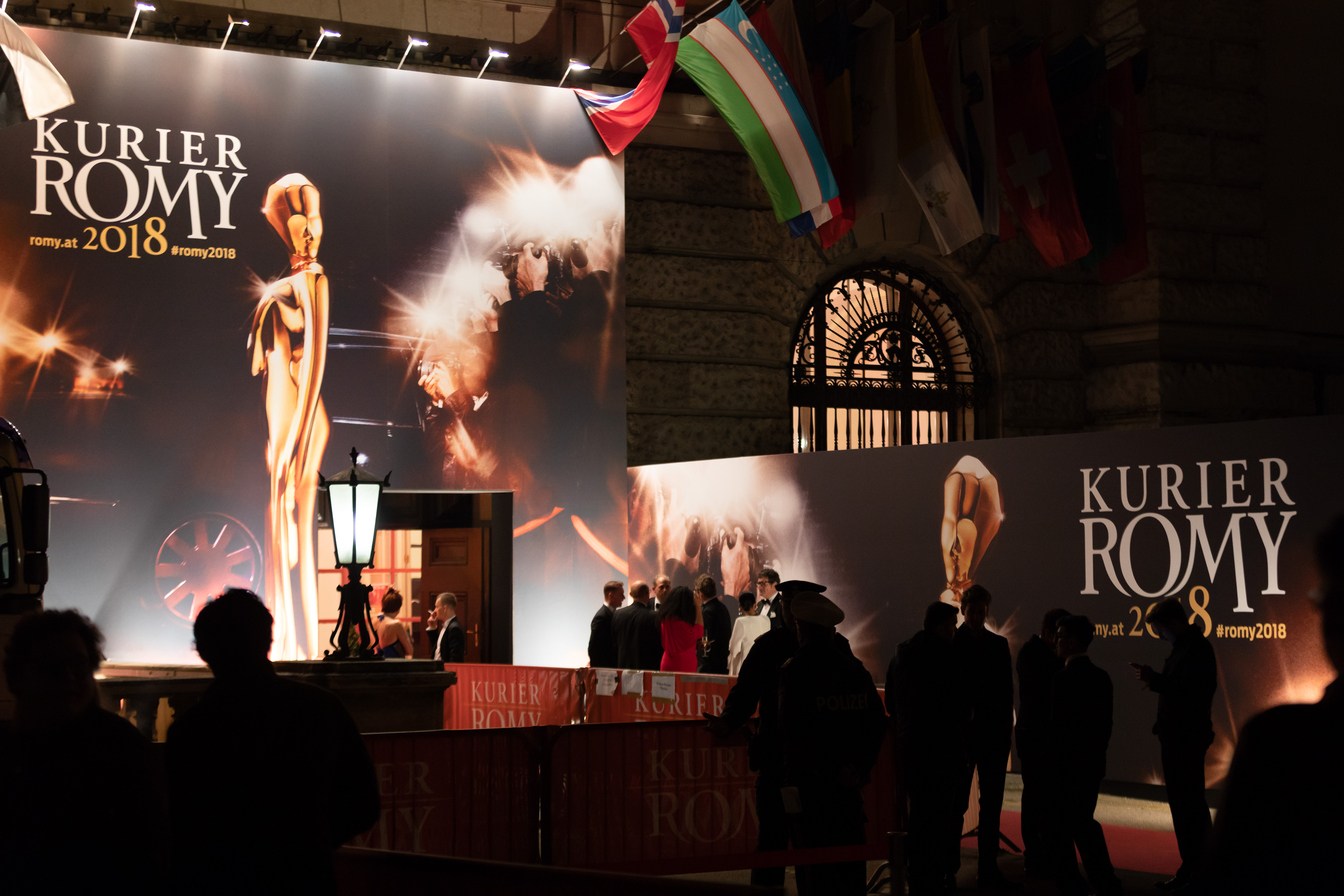 Romy TV awards 2018 at Hofburg Palace in Vienna, Austria.